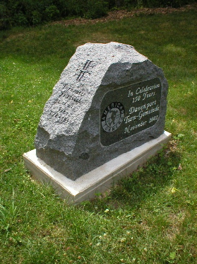 Dedicated in 2002 to commemorate the 150th anniversary of the founding of the Davenport Turngemeinde. The Monument also has a dedication to Friedrich Ludwig Jahn, founder of the Turner movement.